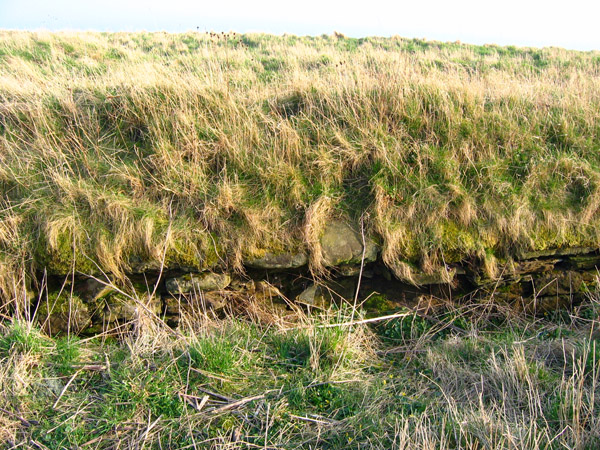 Cowie castle These stone blocks are all that remains of Cowie castle, once the stronghold of the Fraser family